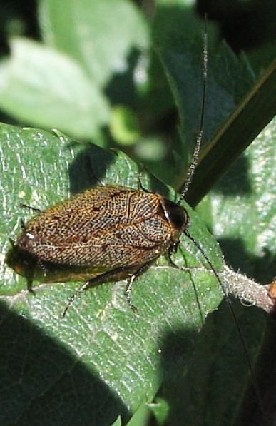 male Ectobius sylvestris in a wood near Nettersheim, Germany